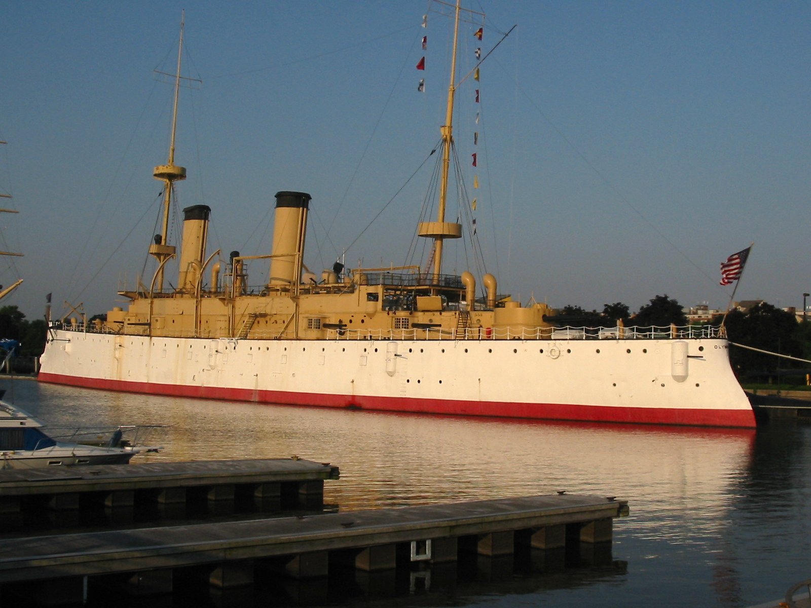 a photo of USS Olympia at Philadelphia's Independence Seaport Museum